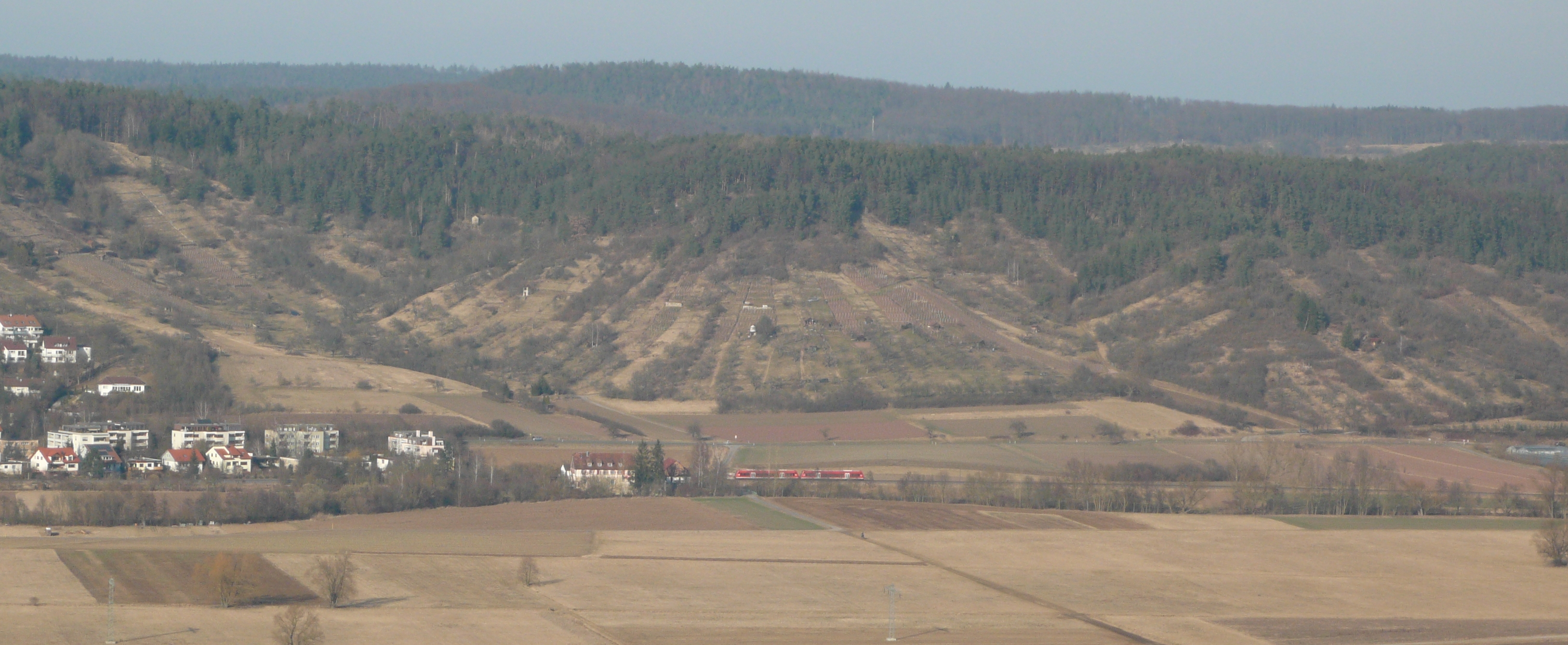 Train of Ammertalbahn near Unterjesingen